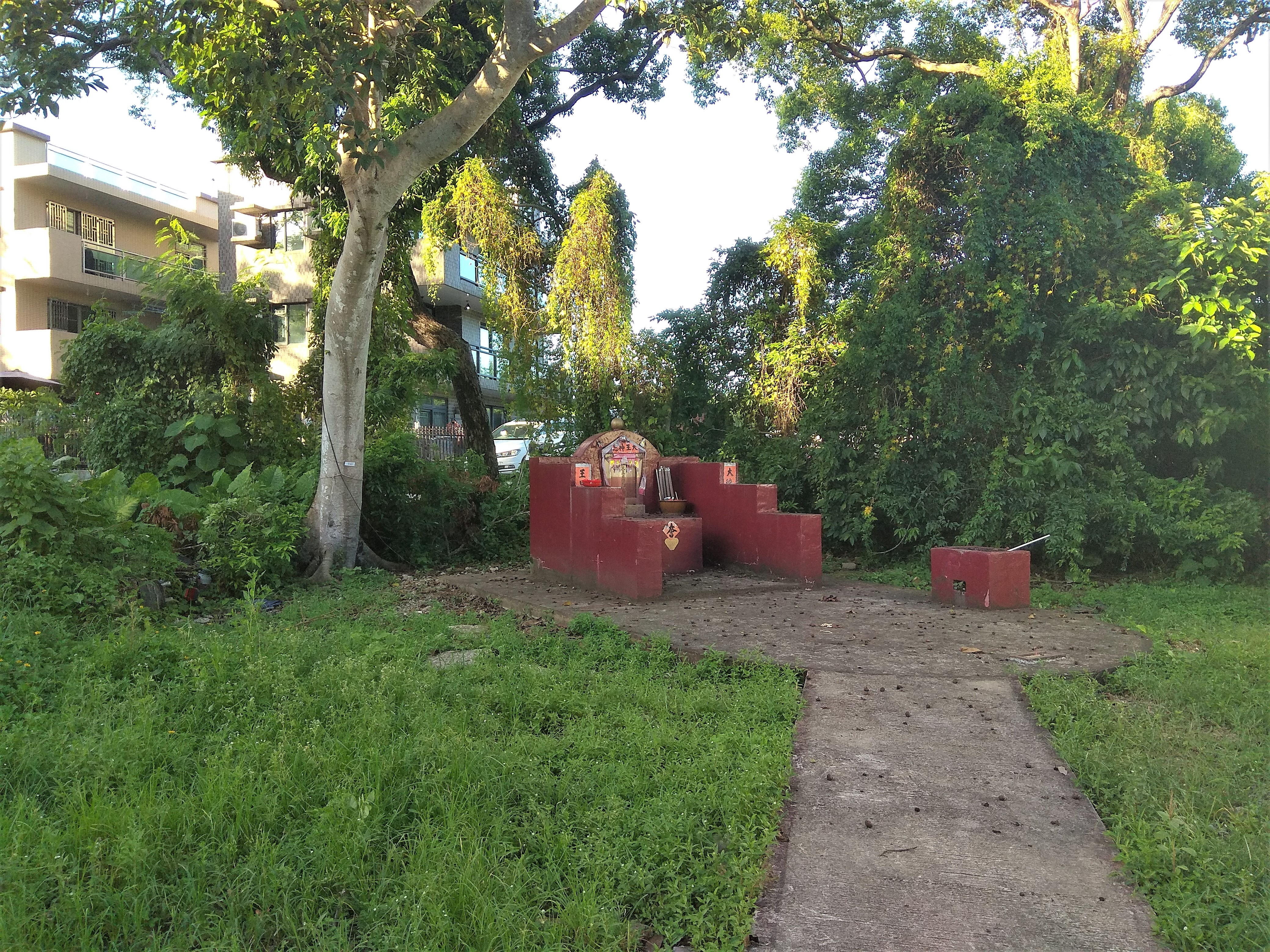 Nga Yiu Tau, Tai Po District